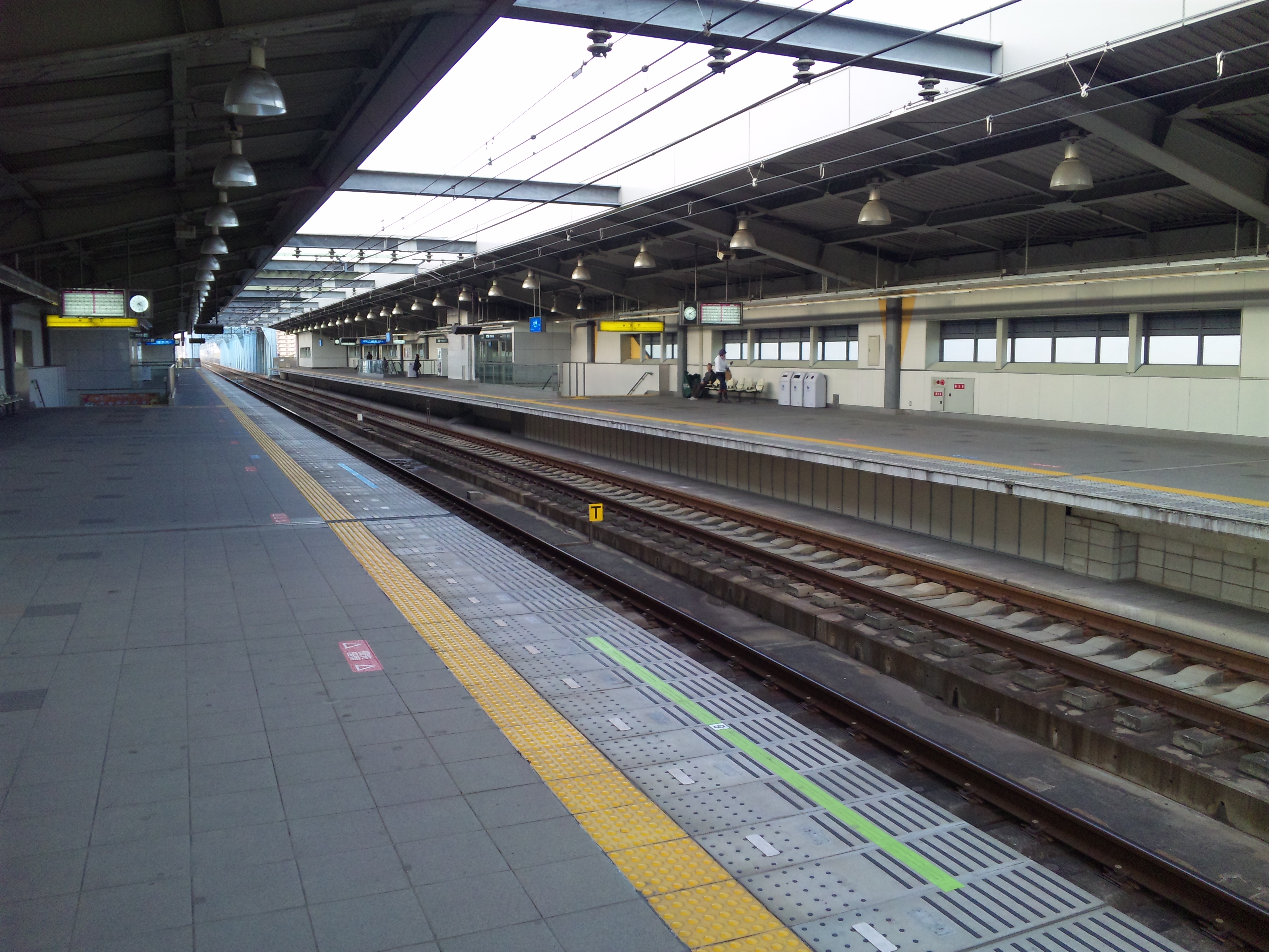 Hanshin Dekijima Platform